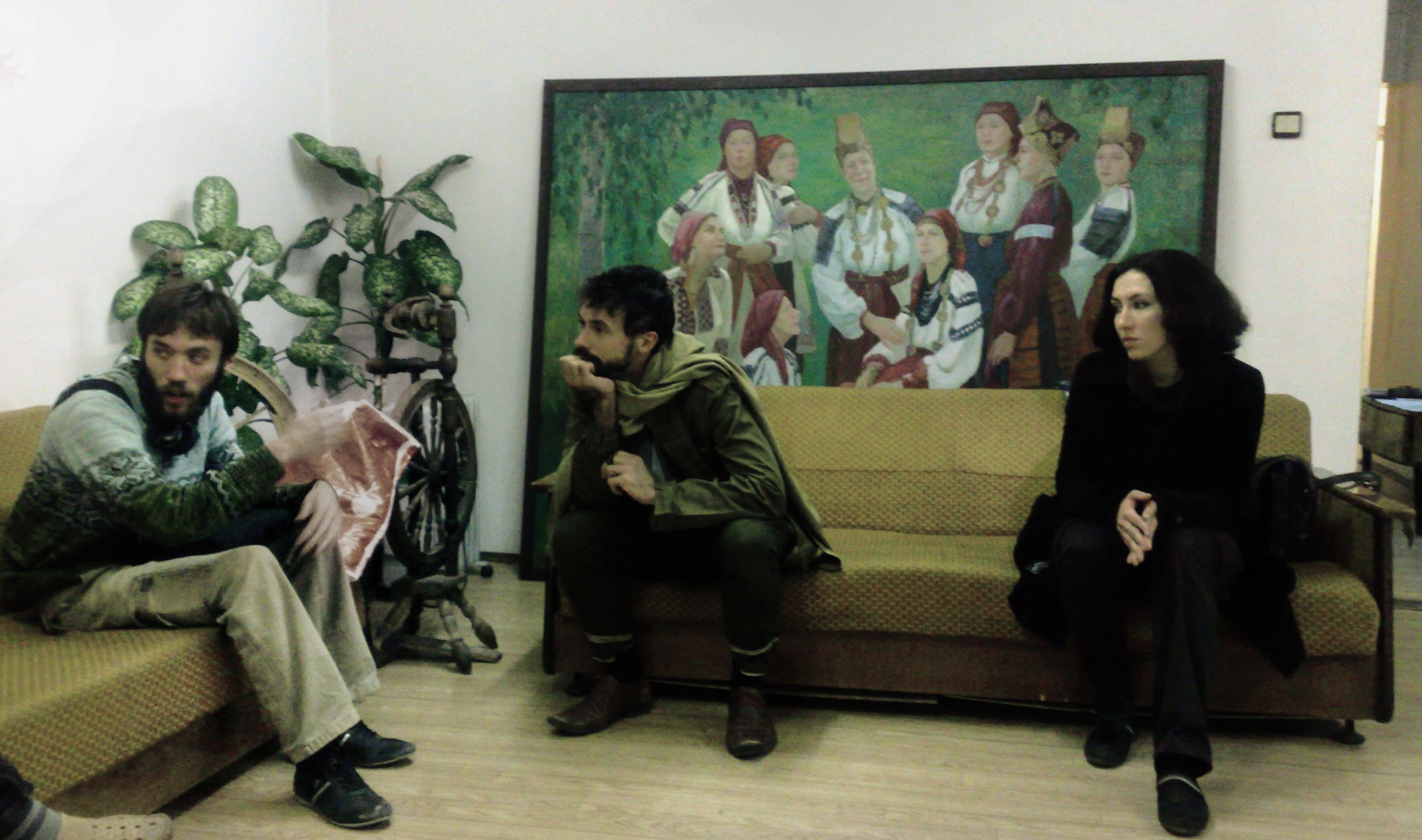 at Ethnomusicology Faculty of VGAI